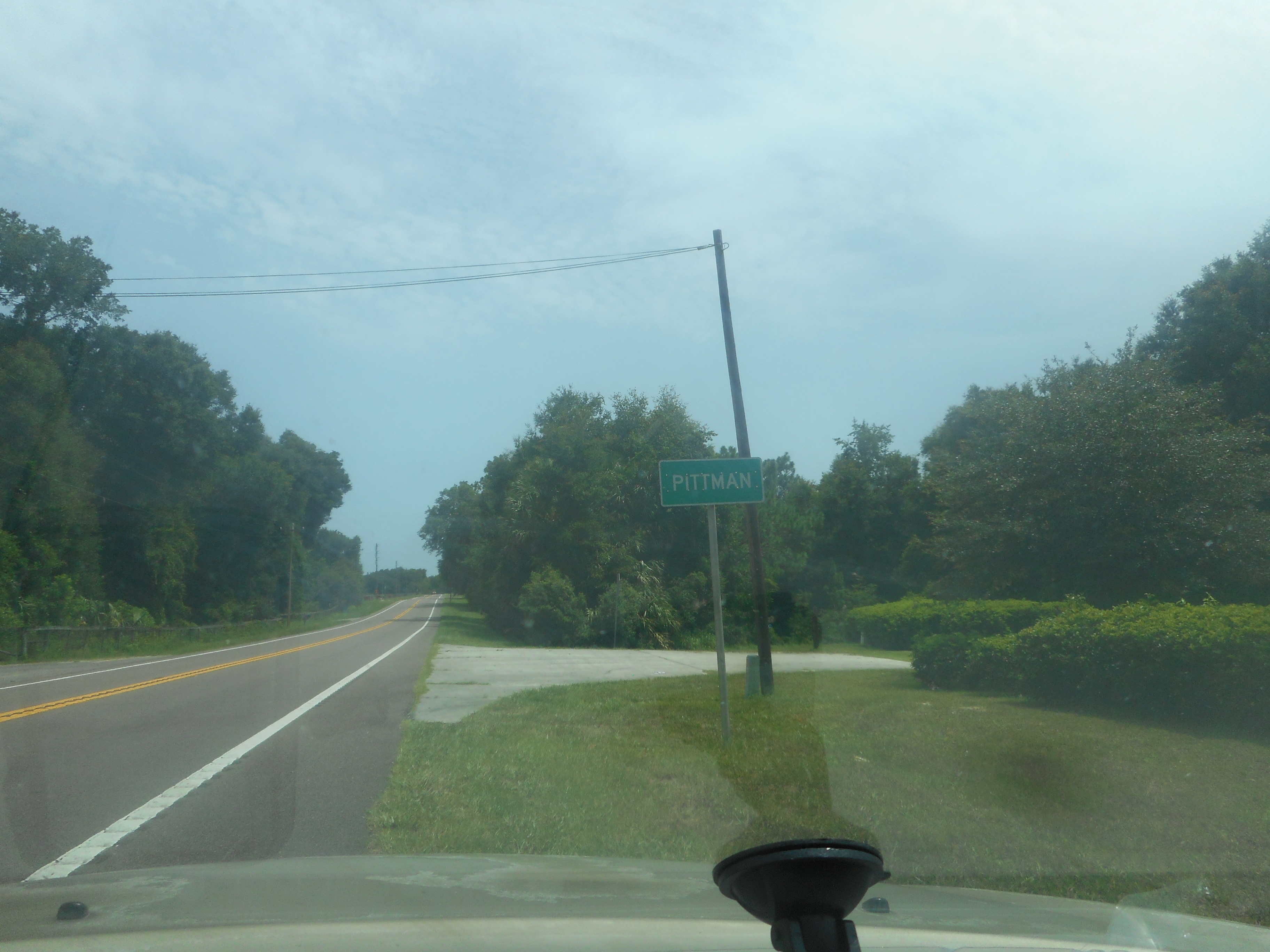 Northbound Florida State Road 19 as it enters the unincorporated community of Pittman, Florida. Taken from my car while pulled off onto the shoulder of the road.